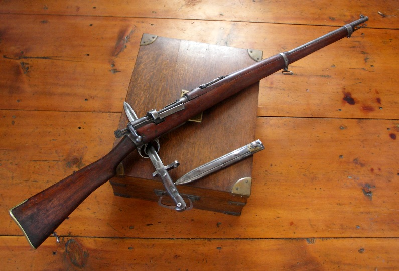 Turkish Enfauser rifle